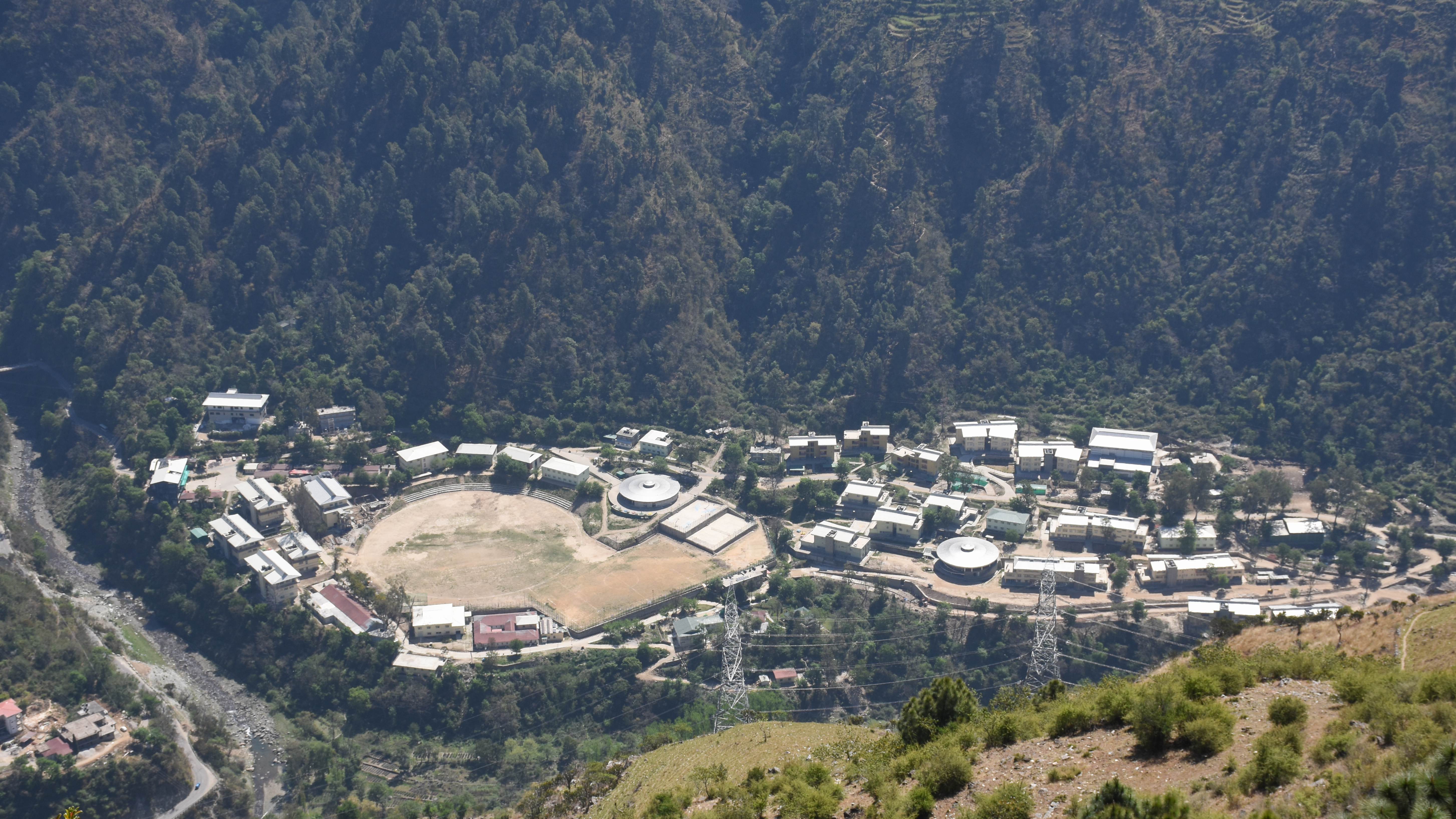 Academic blocks surrounding the cricket field on left. Hostels and faculty/staff residences on right. Uhl River from left to right along the bottom.